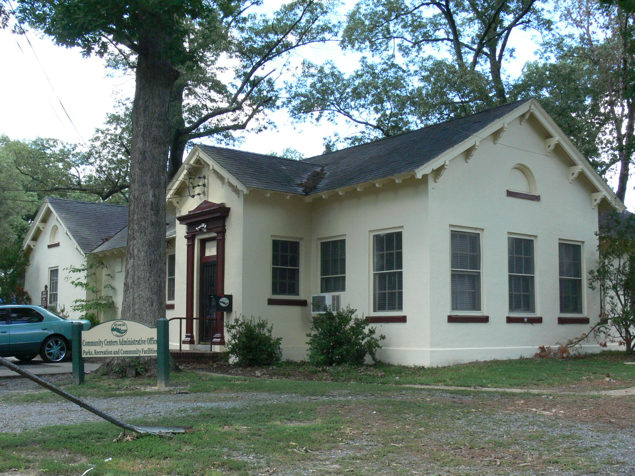 The old administration building from the former Pine Camp Tuberculosis Hospital in Richmond, Virginia; the building is contributing to the the site on the National Register of Historic Places